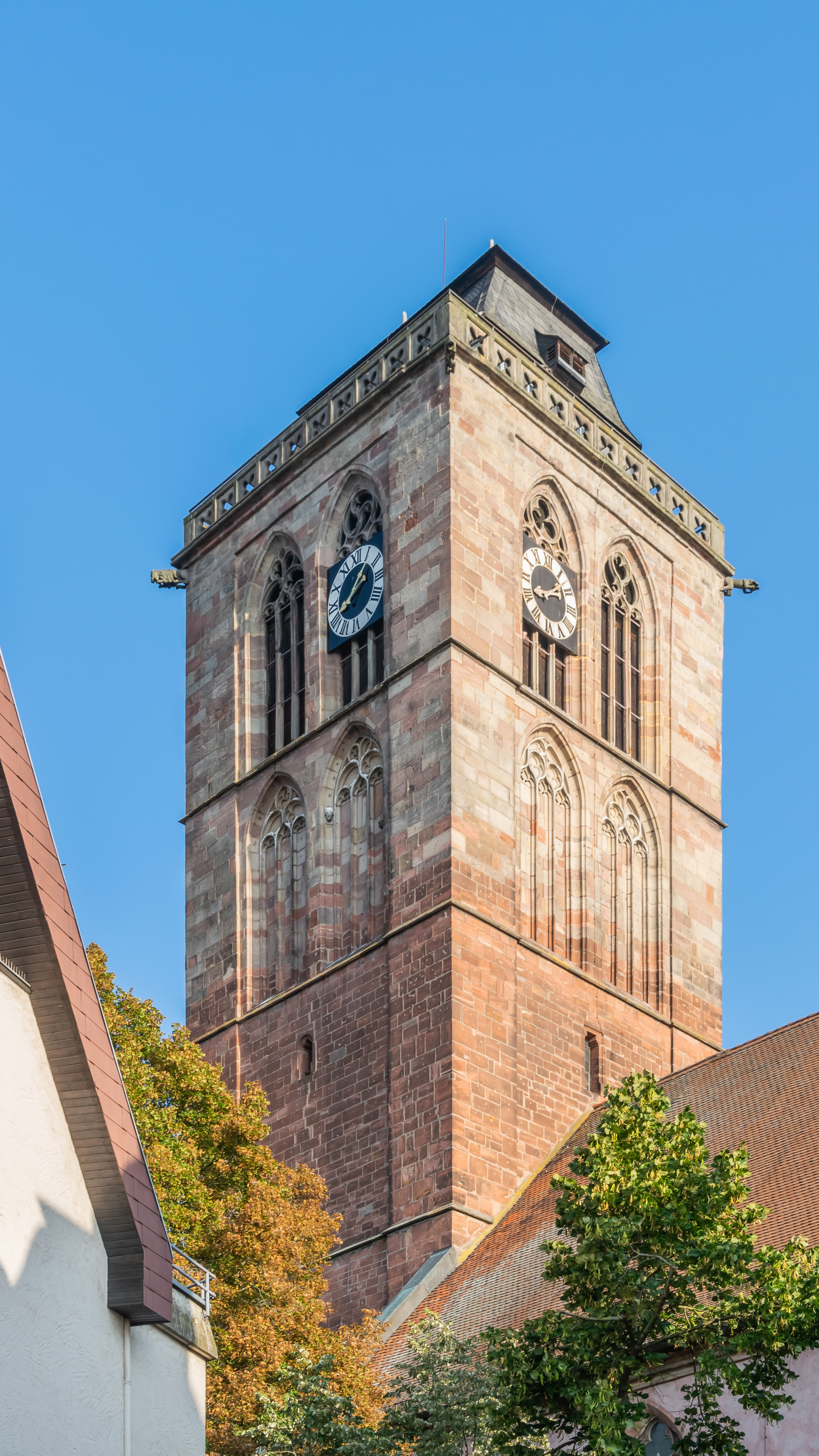 Bell tower of the protestant city church in Bad Hersfeld, Hesse, Germany